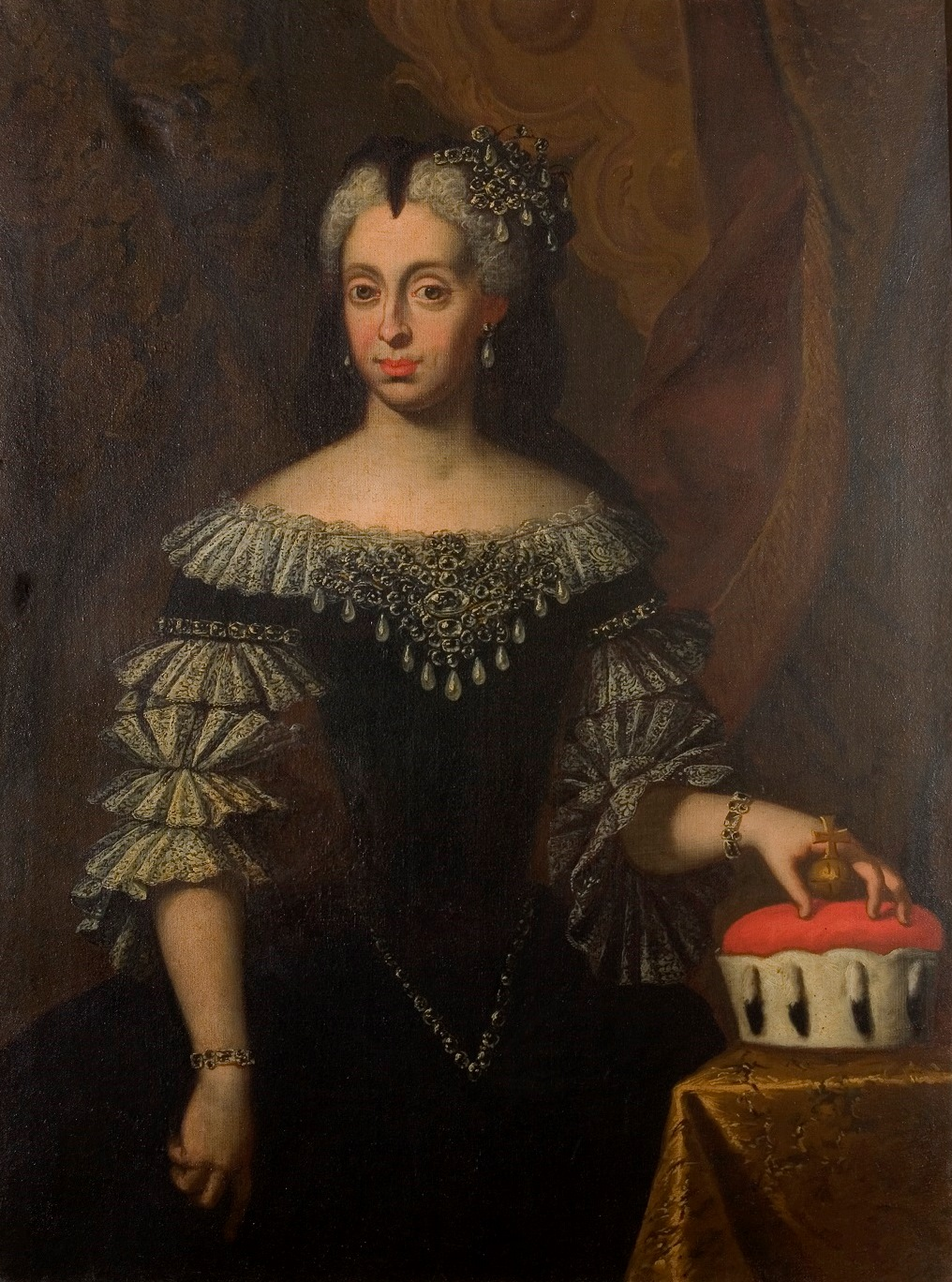 Anna Maria Luisa de' Medici, electress palatine